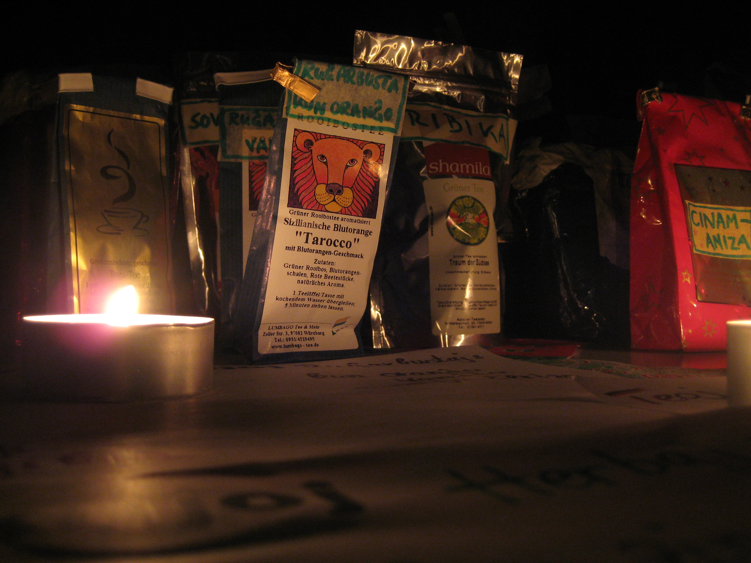 Teas in a Gufujo, a tearoom during an Esperanto event.